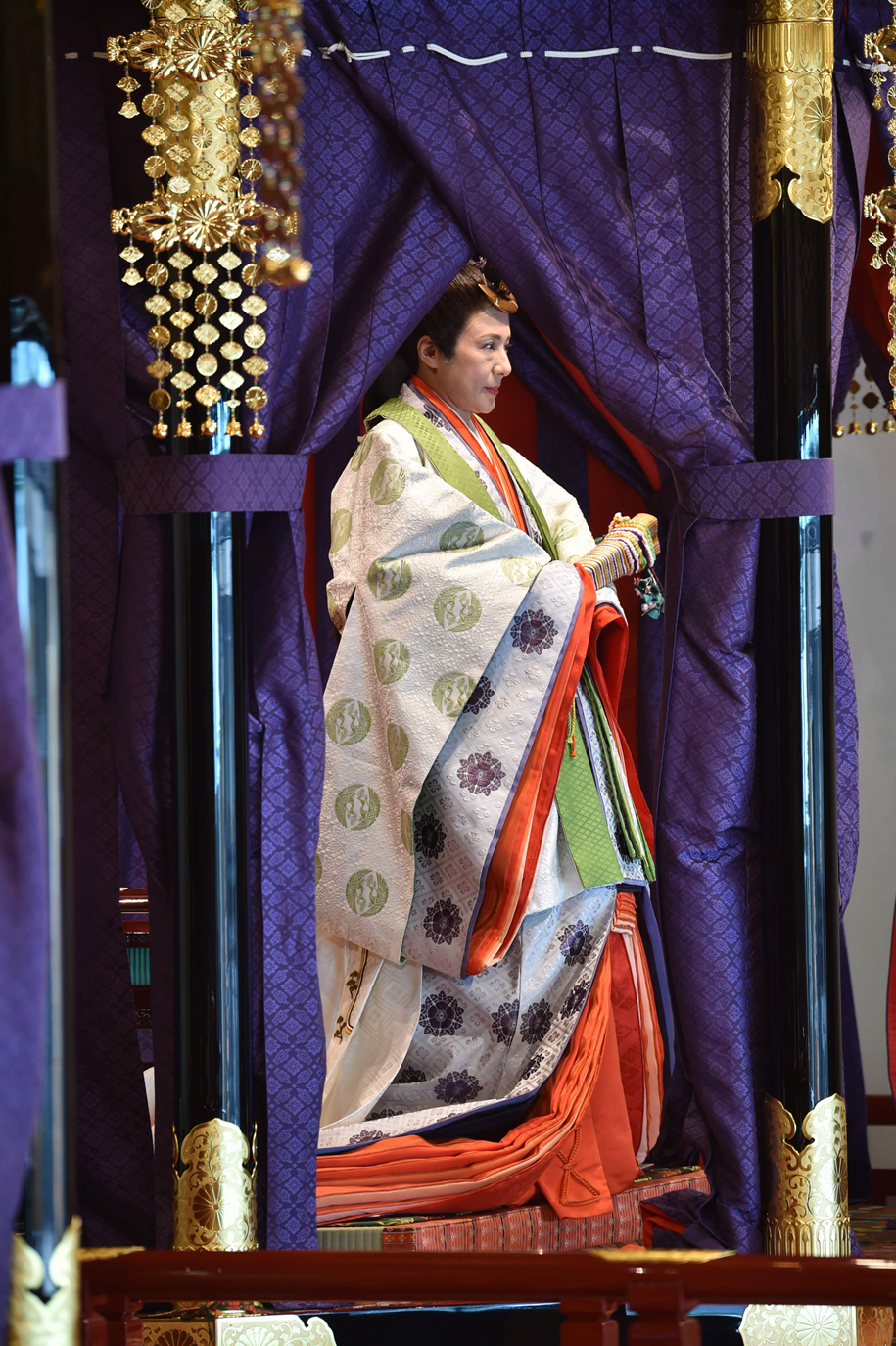 Empress Masako wears Junihitoe (twelve-layered ceremonial kimono)